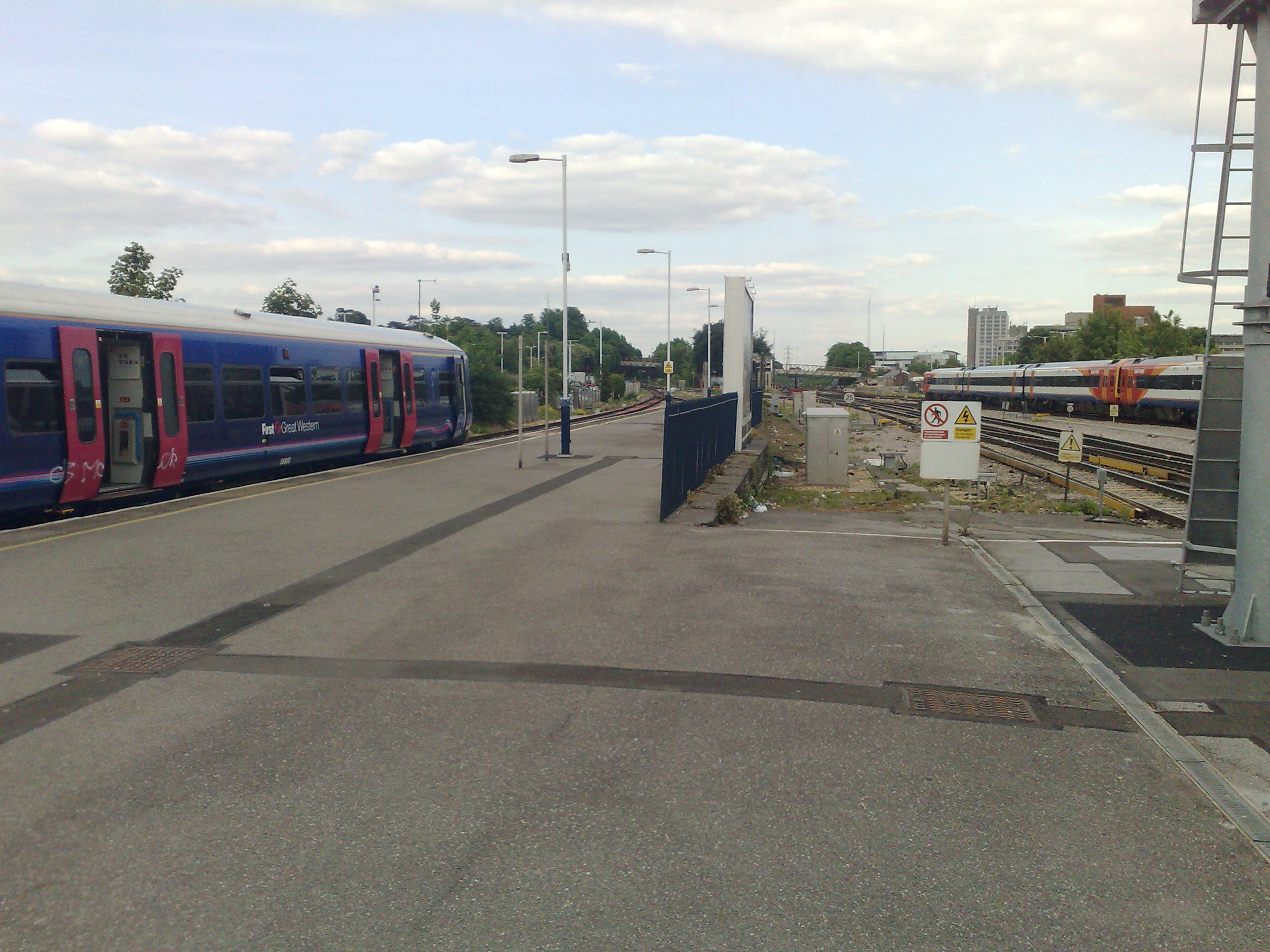 Basingstoke Train Station. Taken from Platform 4, looking east